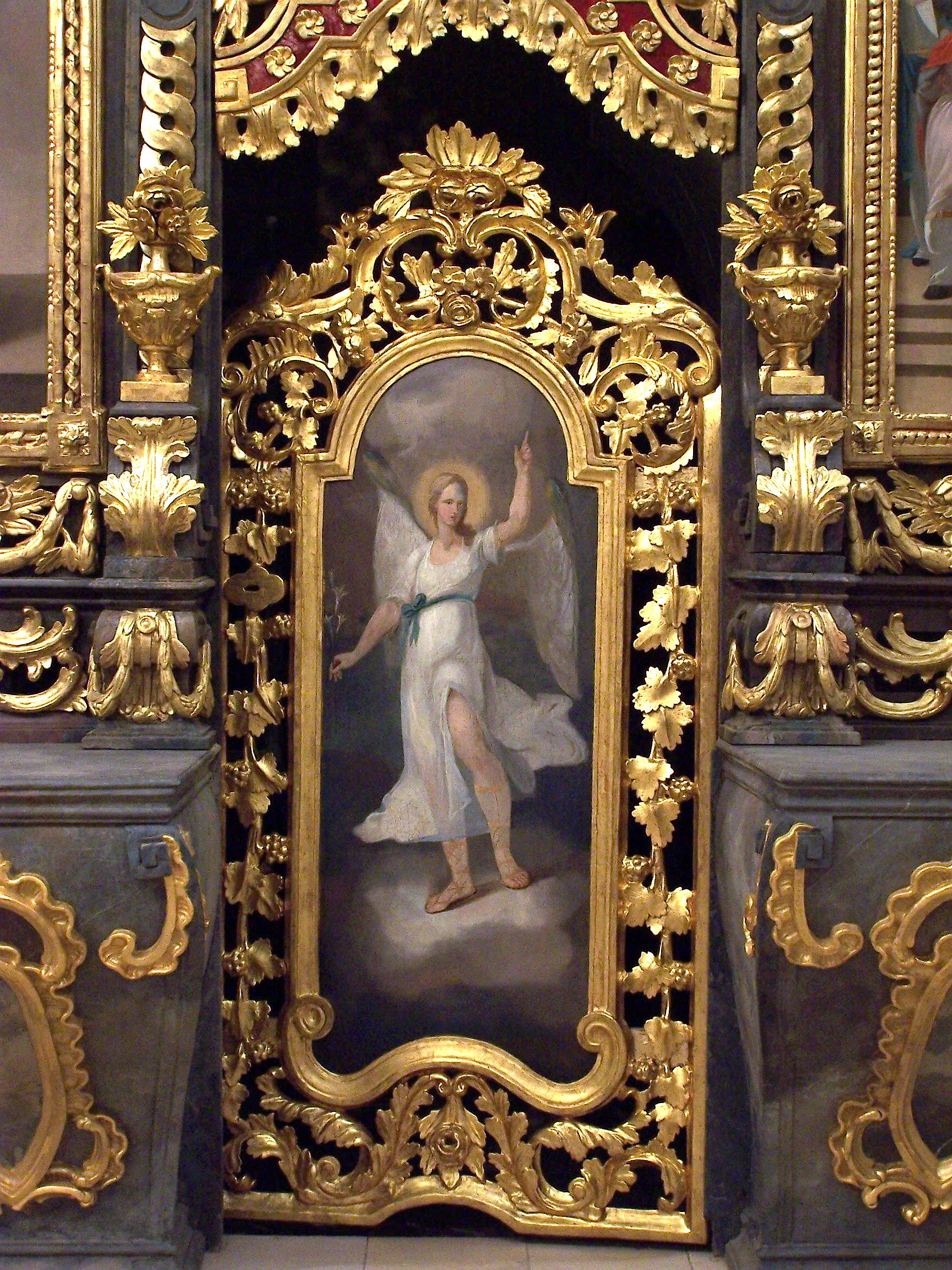 The picture is a Greek Catholic icon of the archangel Gabriel. The angel holds a white lily in his right hand referring to the scene of the annunciation. The icon was painted in the end of the 18th century as part of the iconostasis of the Greek Catholic Cathedral of Hajdúdorog, Hungary. Gabriel is depicted on the southern Deacons' Door.